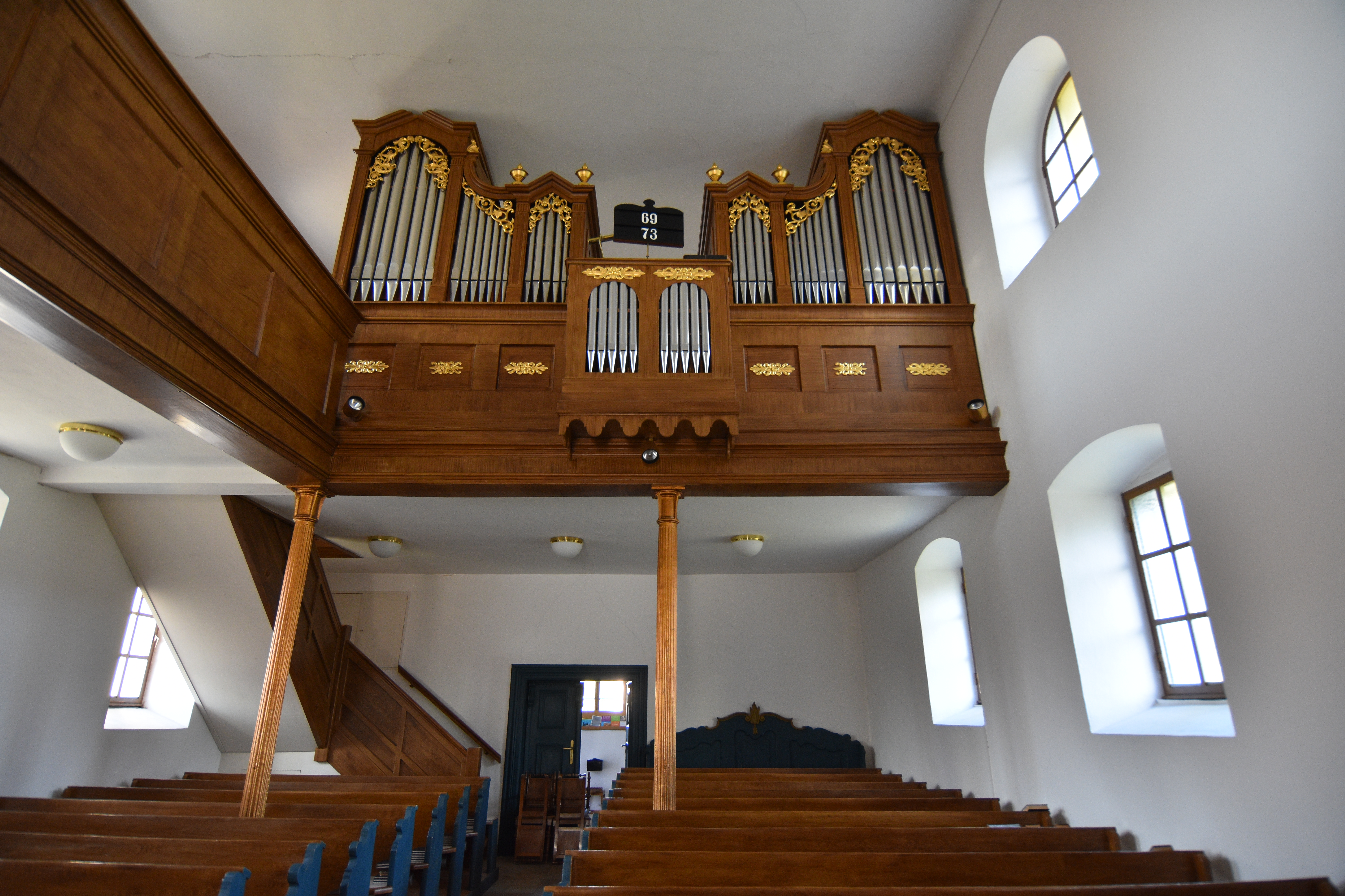 Reformierte Pfarrkirche Oberwart